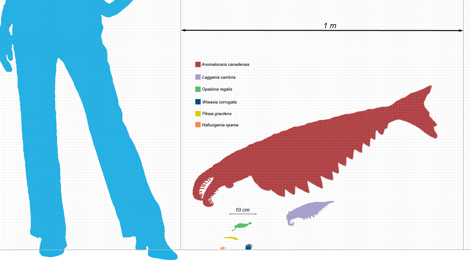 Size comparison of selected Burgess Shale fauna and a human. Modified from illustrations by ArthurWeasley, Matt Martyniuk, and Mateus Zica